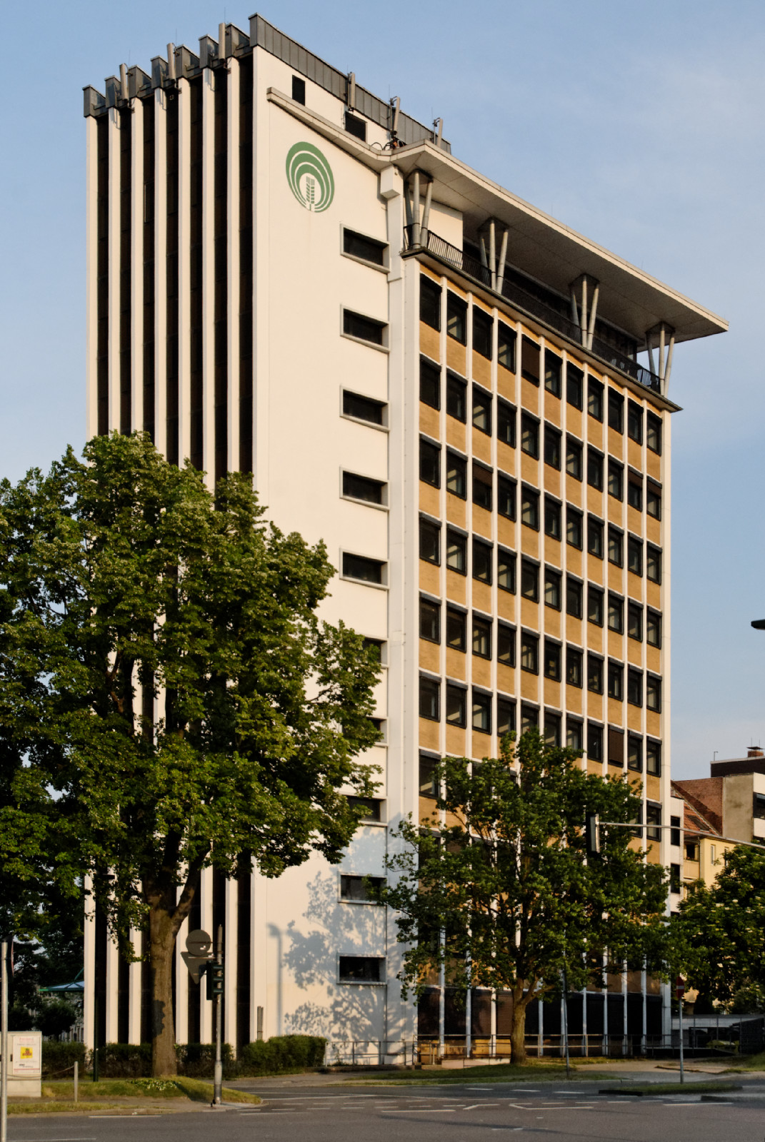 Building Merowingerstraße 103 in Düsseldorf-Bilk, Germany